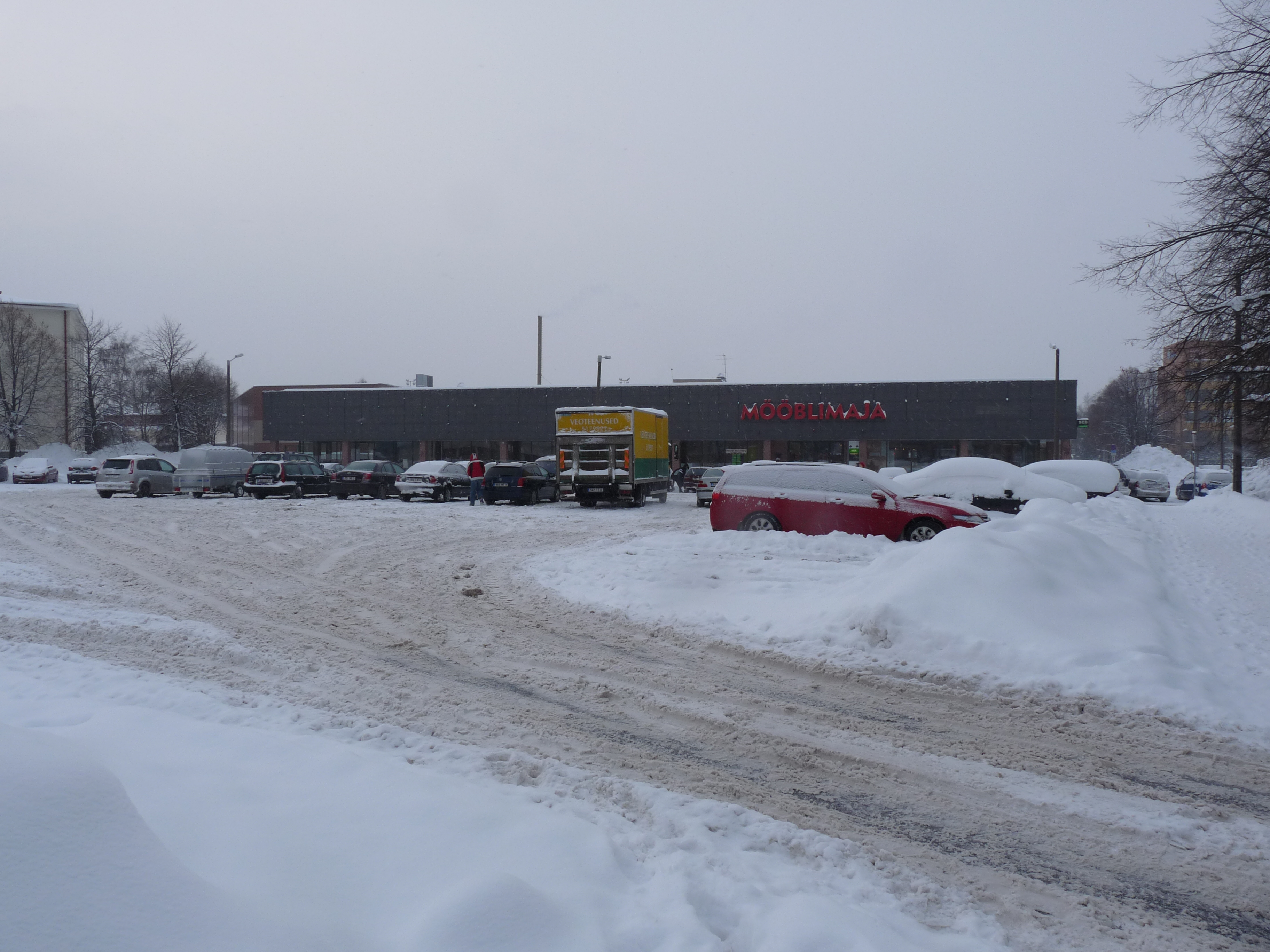 The "Furniture House" in Tallinn